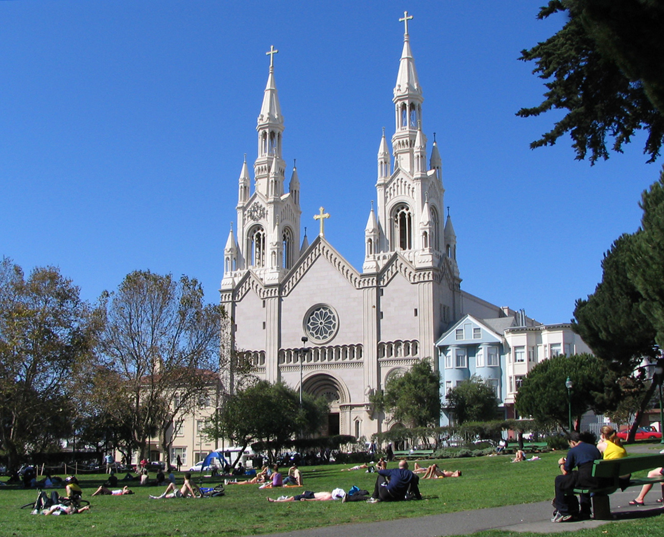 Saints Peter and Paul Catholic Church on Washington Square in the North Beach neighborhood in San Francisco